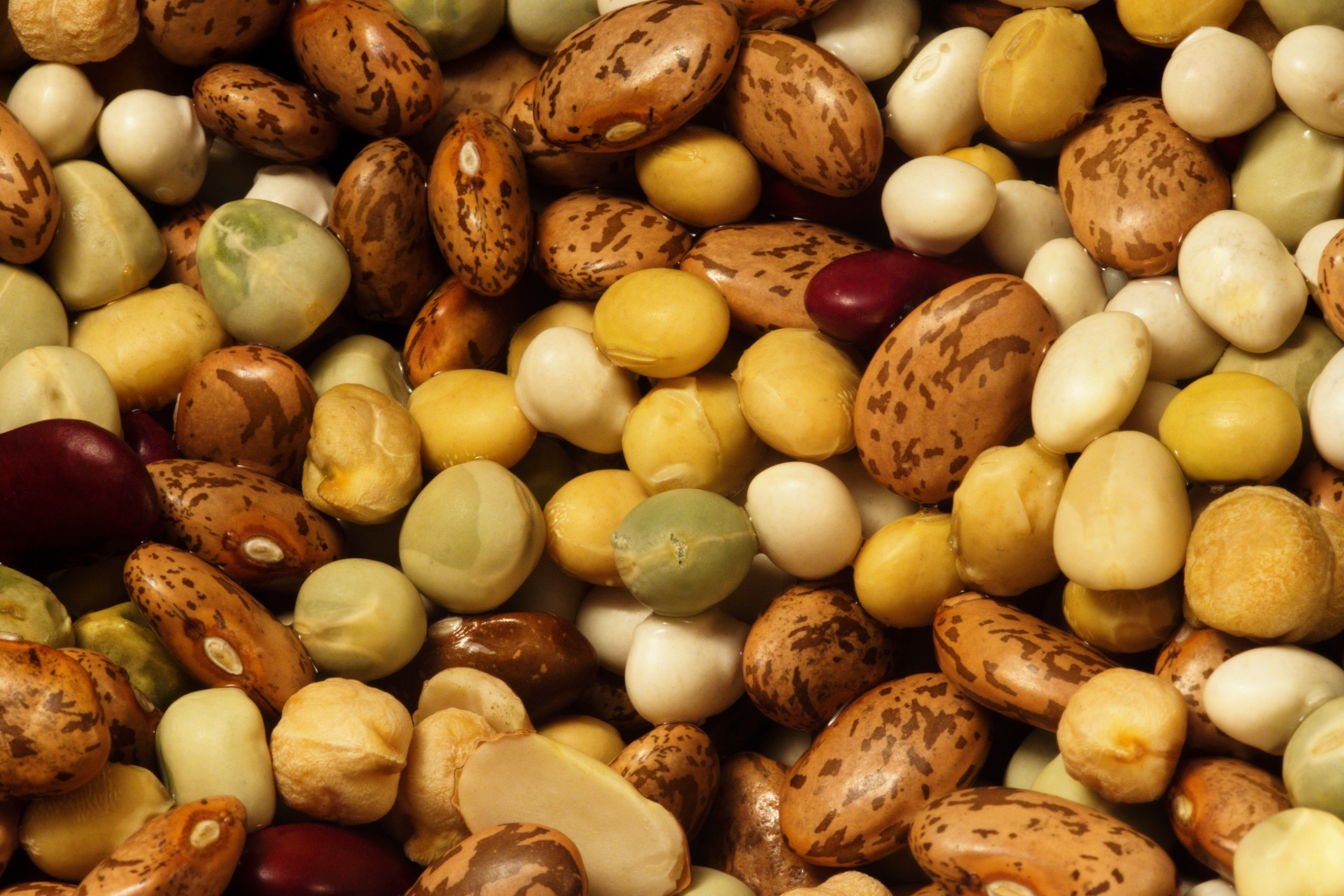 Mix of legume